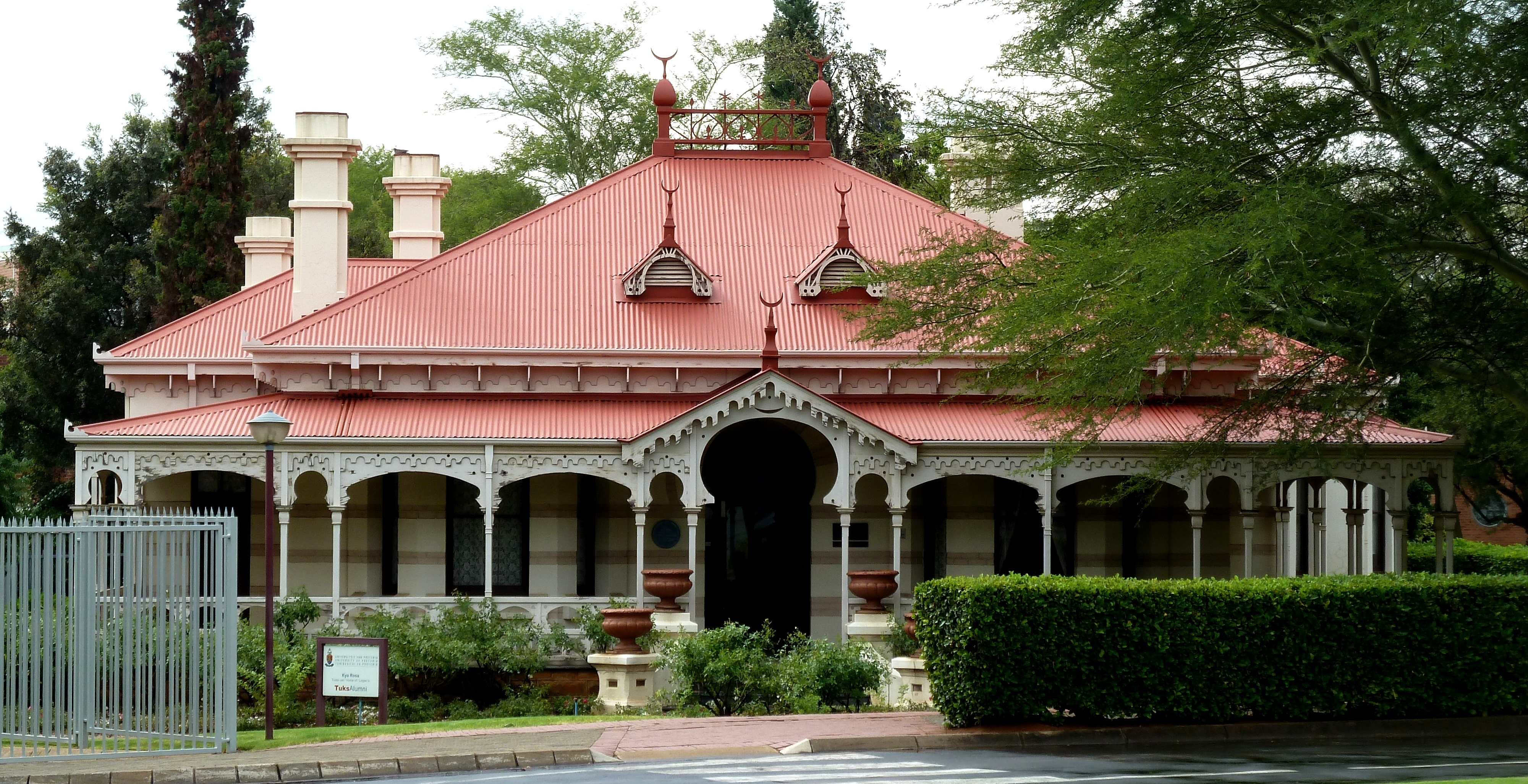 Kya Rosa building, an imposing late-Victorian villa beside the entrance to the Hatfield campus of the University of Pretoria. In 1908 the University's first students attended classes in it,[1] when it was still located downtown. In 1980 the university decided to save it from neglect by moving it to the main campus, and it was inaugurated at the new location on 25 Oct 1985. Recently it houses the TuksAlumni Office.[2] ↑ a b University of Pretoria Historic Overview ↑ a b c Kya Rosa - Tuiste van Alumni